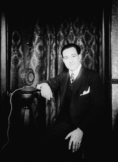 Miguel Fleta, Spanish tenor